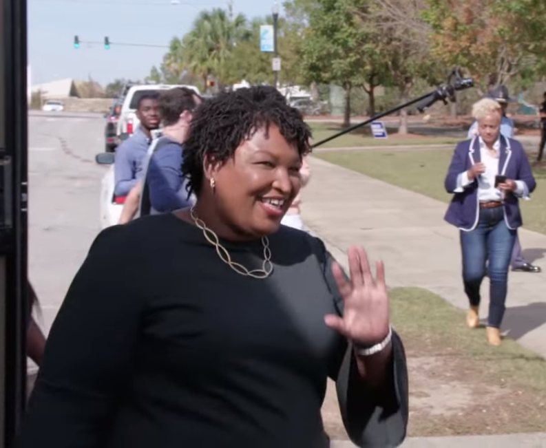 Stacey Abrams campaigning in 2018.